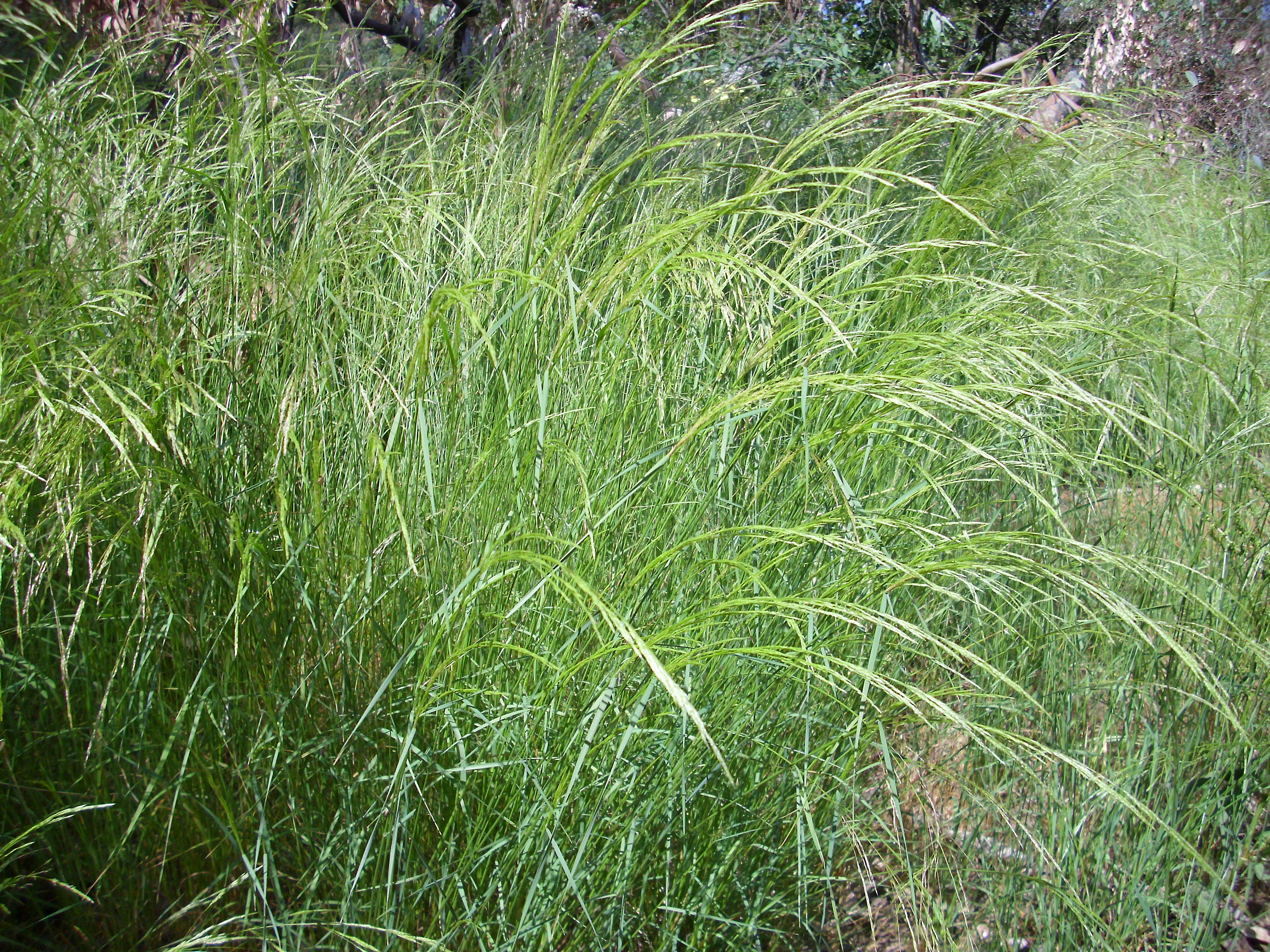 Arrhenatherum elatius habit, Dehesa Boyal de Puertollano, Spain